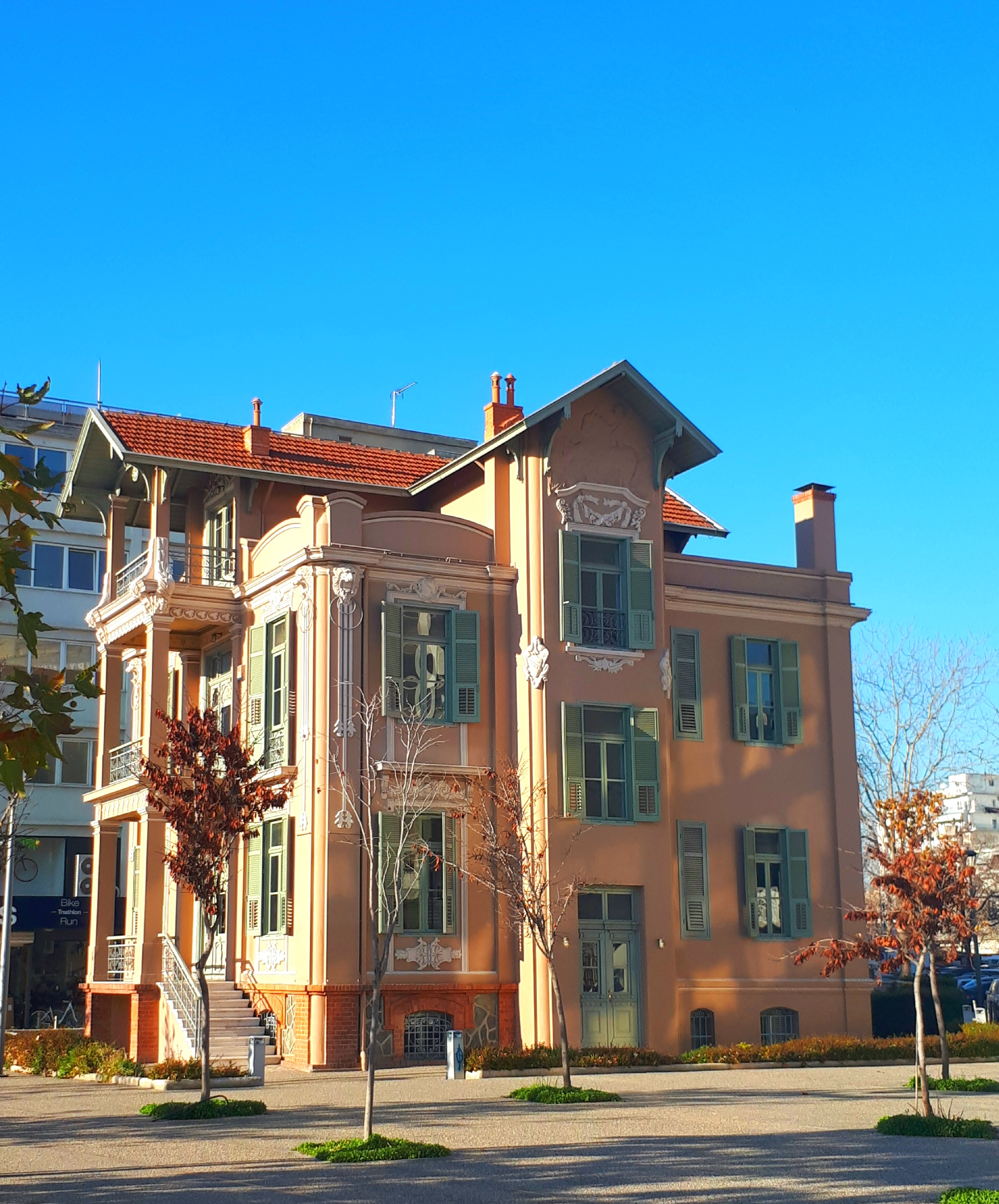 Villa Petridi, Anagenniseos str.